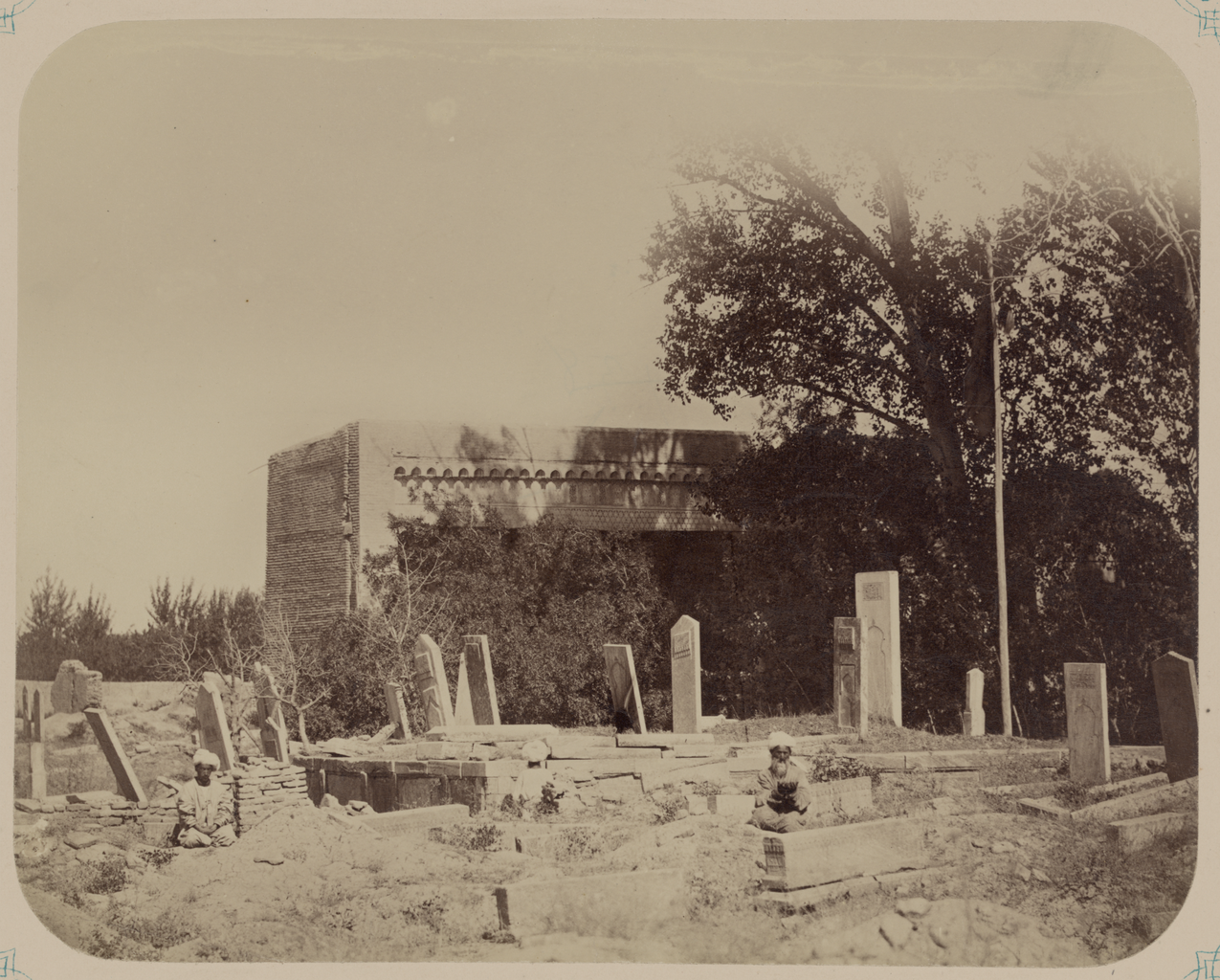 This photograph of the Khodzha Akhrar shrine in Samarkand (Uzbekistan) is from the archeological part of Turkestan Album. The six-volume photographic survey was produced in 1871-72 under the patronage of General Konstantin P. von Kaufman, the first governor-general (1867-82) of Turkestan, as the Russian Empire’s Central Asian territories were called. The album devotes special attention to Samarkand’s Islamic architectural heritage. The shrine contains several structures dedicated to the memory of the renowned 15th-century mystic Khodzha Akhrar (1403-89). The main components are a winter and a summer mosque. The summer mosque, visible in the background, was built of adobe brick. Its iwan (vaulted hall, walled on three sides, with one end open) portico, supported by wooden columns on marble bases, culminates in a cornice decorated with intricate carving, including a “stalactite” pattern. The ensemble also included a pool and a cemetery for prominent religious leaders. This view of the cemetery shows marble sarcophagi and grave markers with decorative carvings and inscriptions. Although the tombs are in some disarray, the cemetery nonetheless retained its significance as a place of pilgrimage and prayer. The seated figure on the right is engaged in reading what would presumably be a devotional text. His long beard and white turban suggest status as a mullah. Cemeteries; Mosques; Photographic surveys; Sepulchral monuments; Tombs